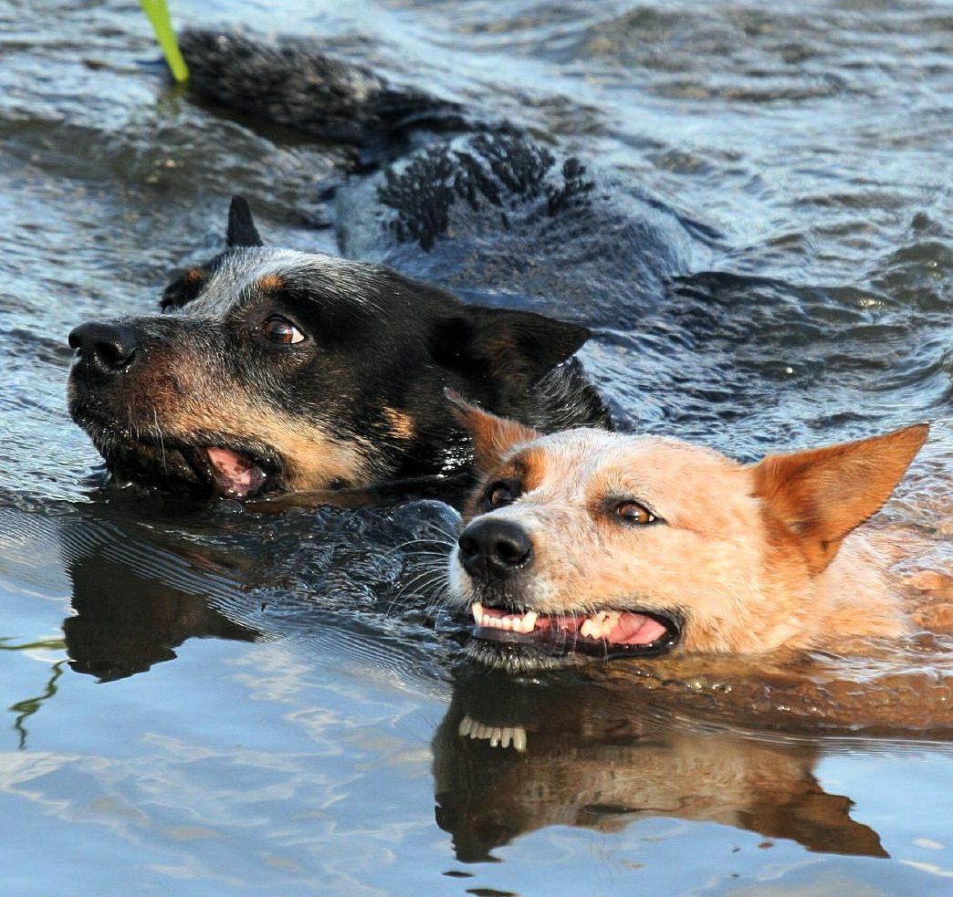 Two Australian Cattle Dogs swimming in a lake